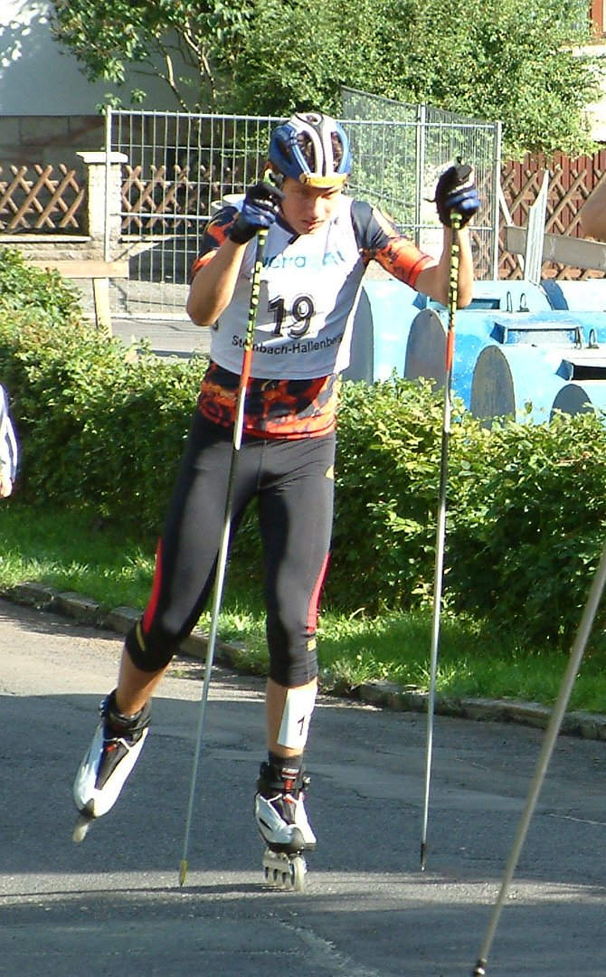 Tino Edelmann during the Sommer Gand Prix in Steinbach-Hallenberg